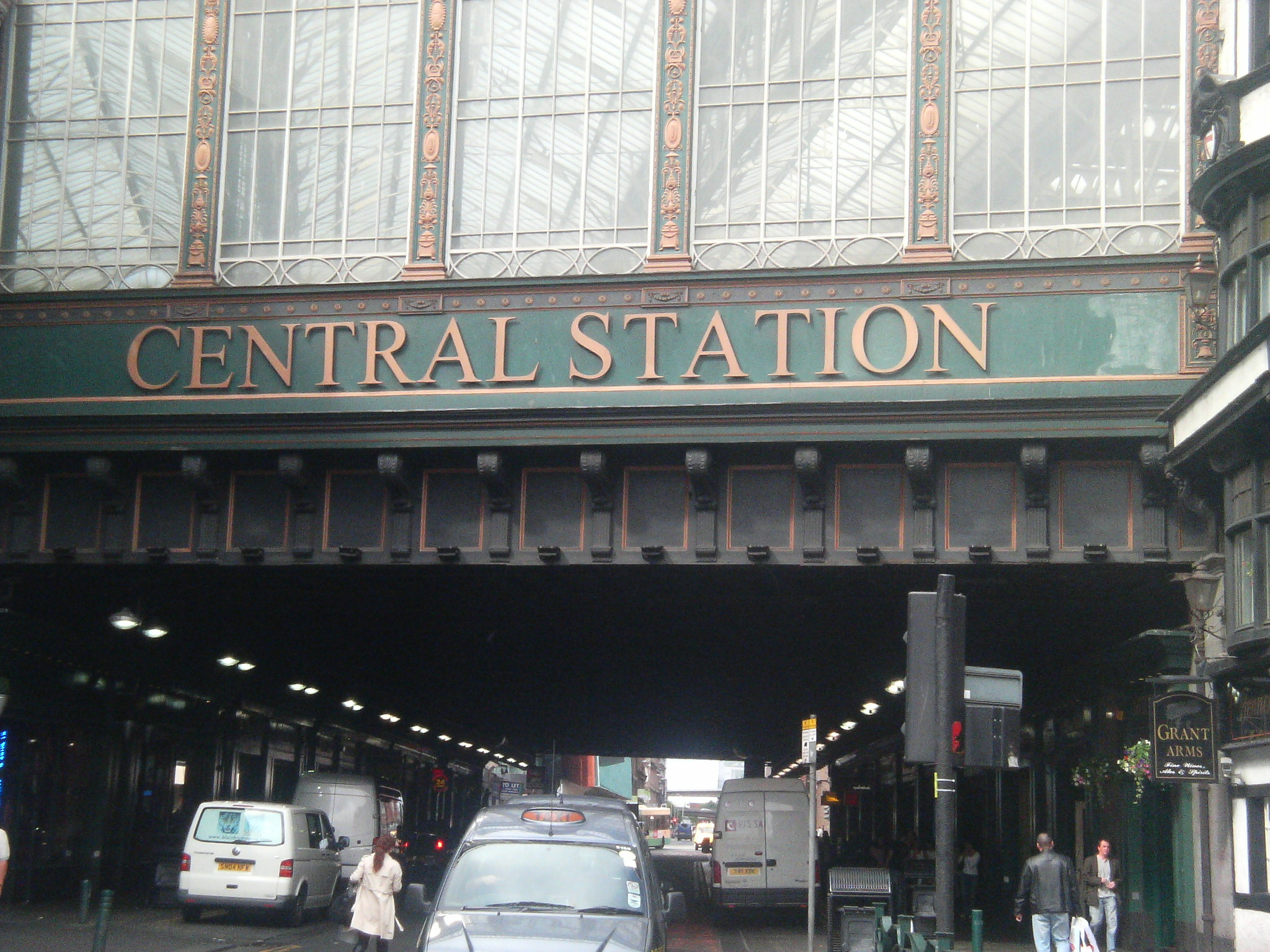 Photo I took of Central Station in Glasgow using a Nokia N93